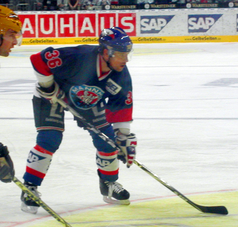 Yannic Seidenberg, Ice hockey player, forward, Adler Mannheim